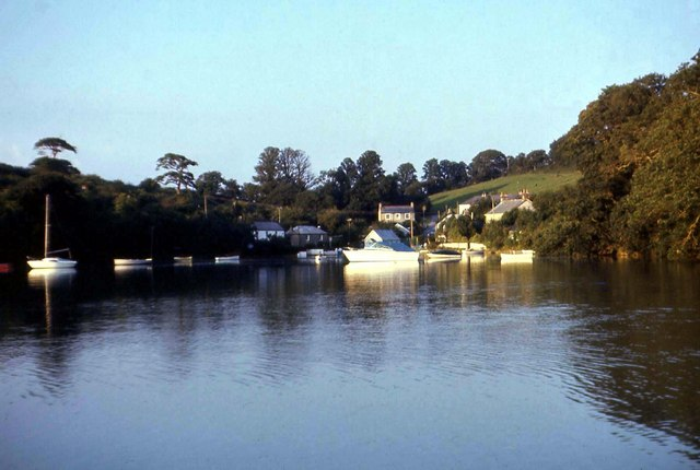 Coombe, Kea The home of Kea Plums popular for jam making